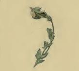 Stainton’s Natural History of the Tineina (1855–1873): Syncopacma taeniolella a sprig of Trifolium micranthum with leaves united by larva